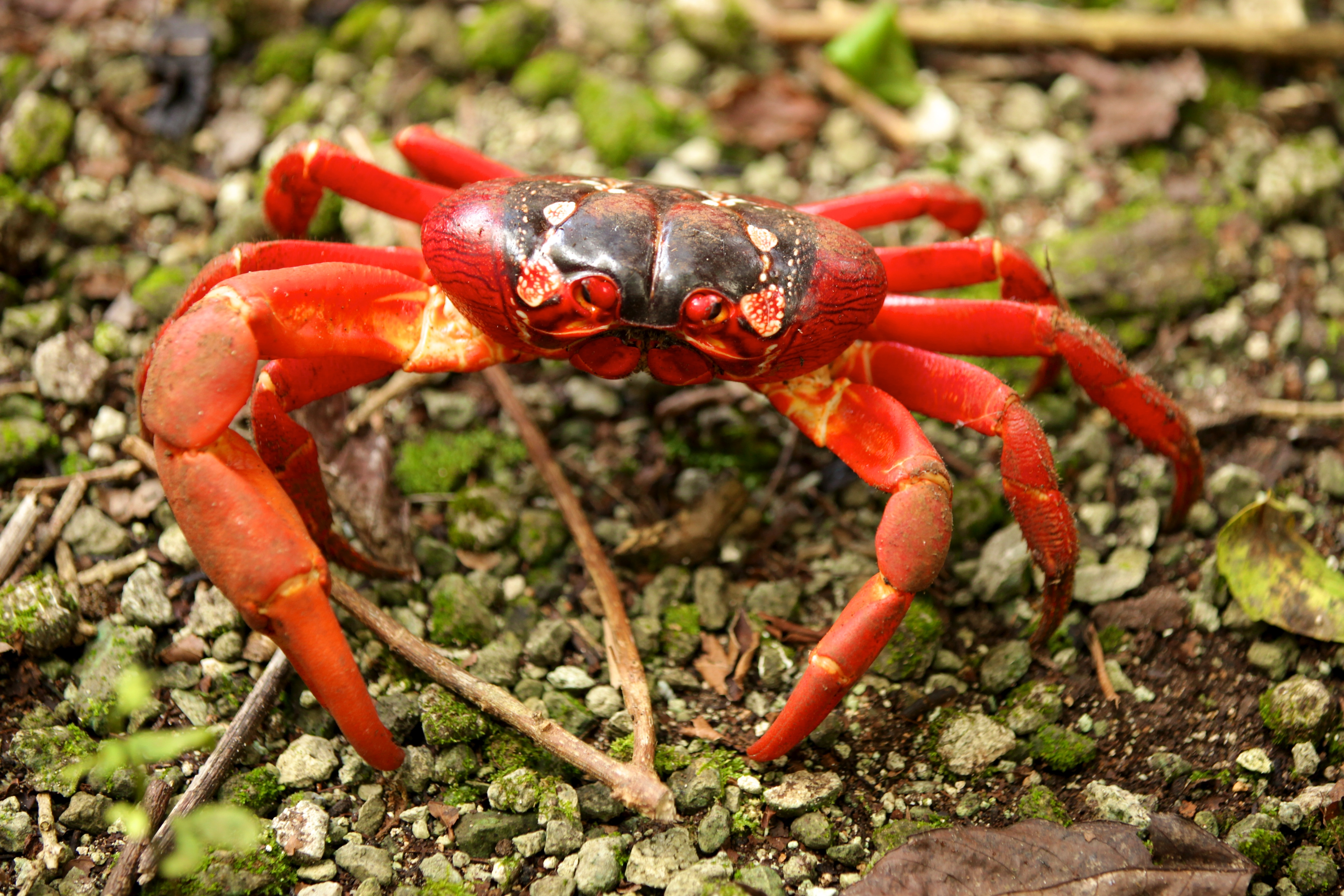 The Christmas Island red crab, Gecarcoidea natalis, is a species of terrestrial crab endemic to Christmas Island in the Indian Ocean.